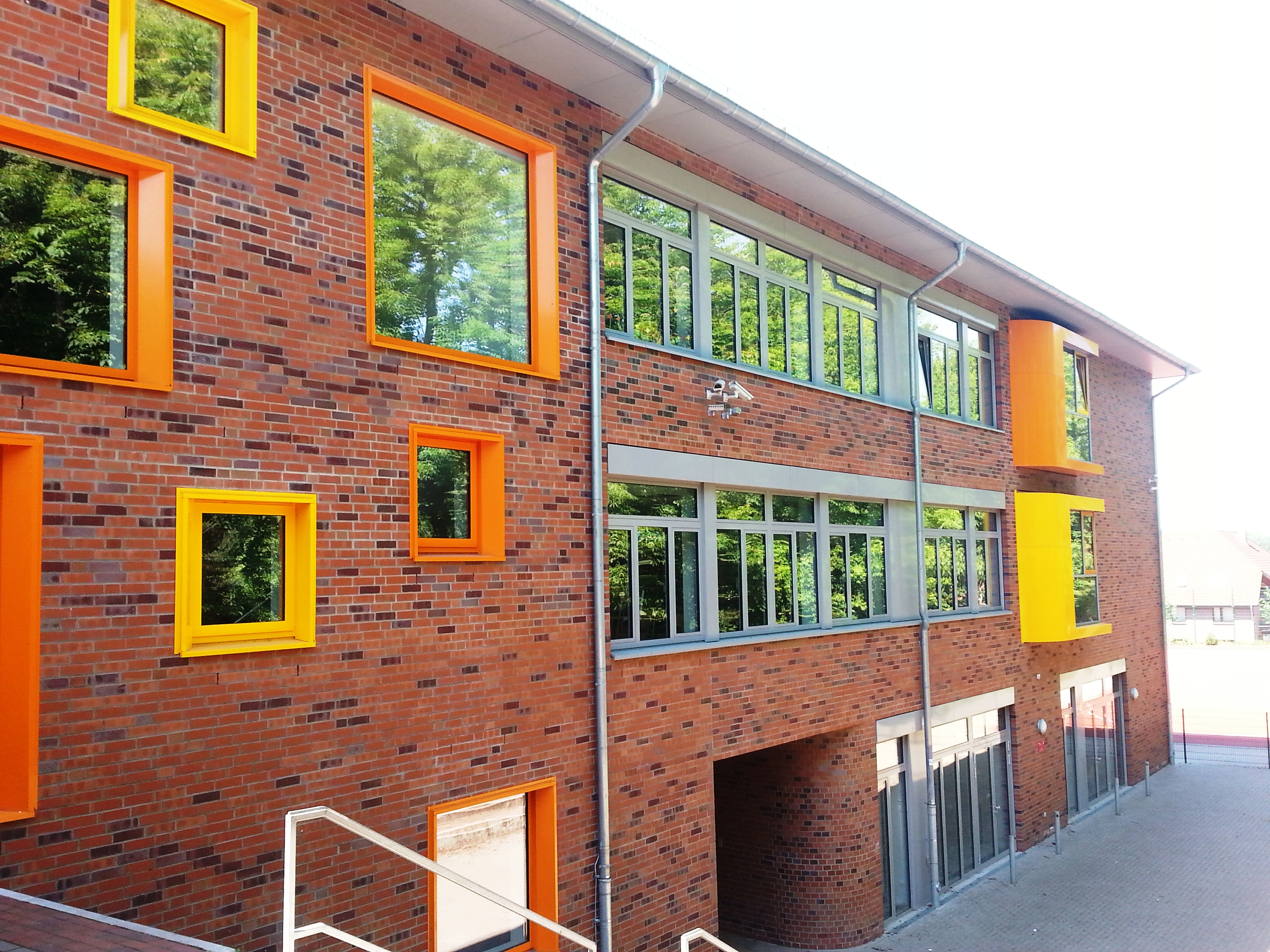 The Gymnasium Athenaeum (i.e. Athenaeum grammar school), established in 1588, in Stade, Lower Saxony, Germany. Northeastern façade of the Erweiterungsbau (i.e. extension building, completed in 2012).